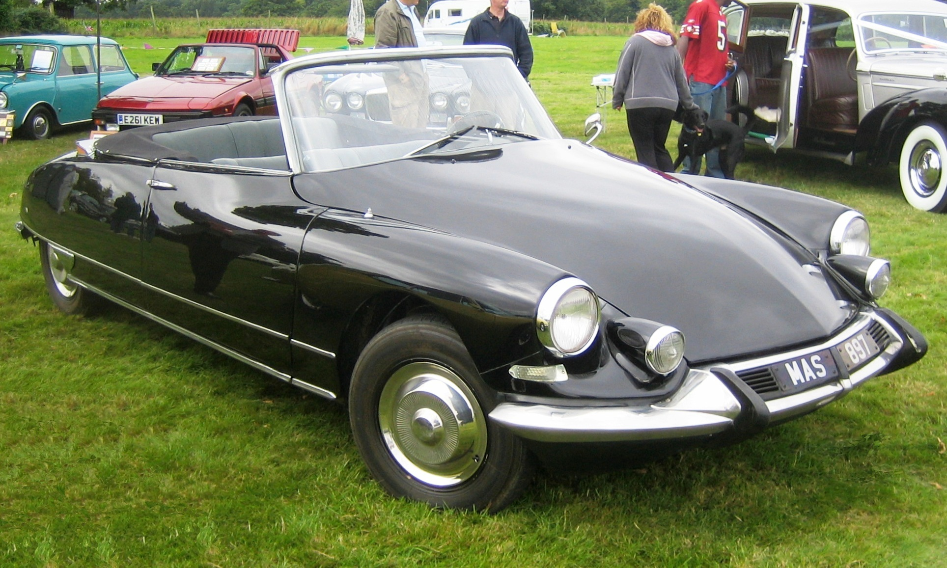 Citroen DS21 Cabriolet at Knebworth Classic Car Show